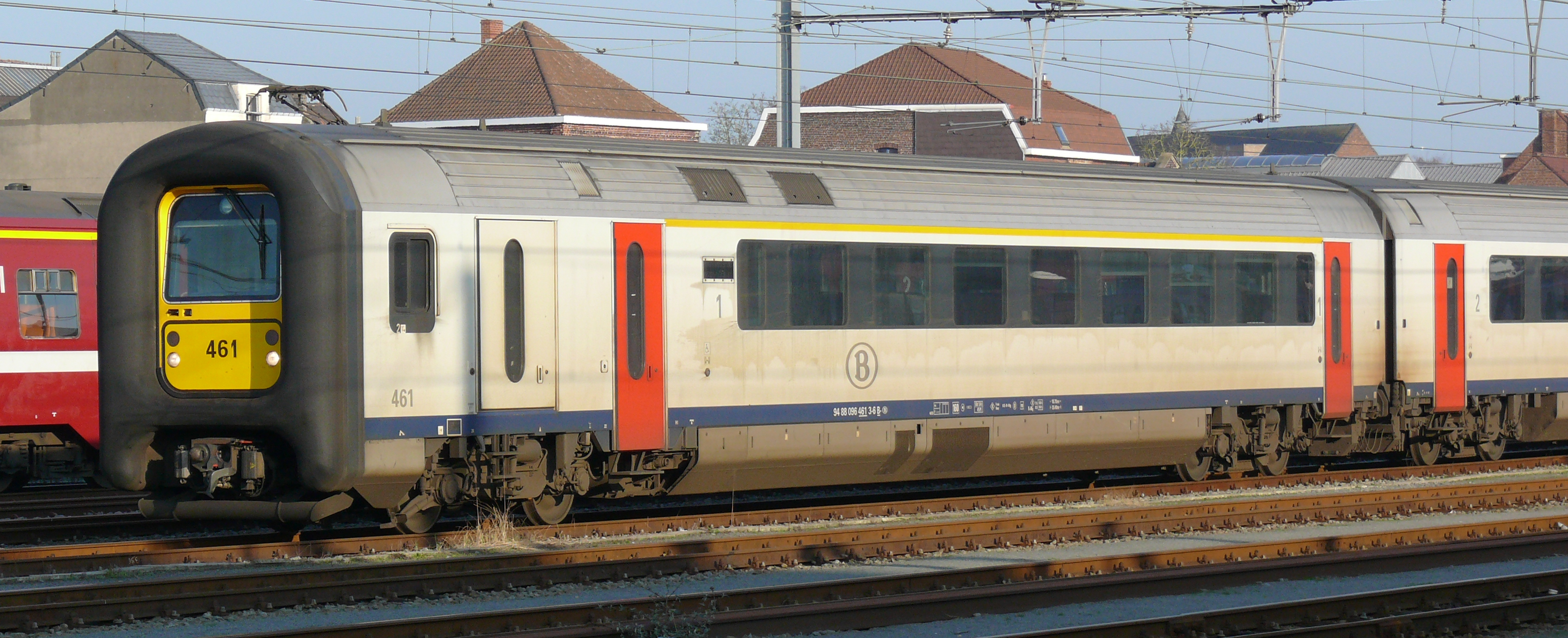 NMBS 461 (type MS96) in Tournai.